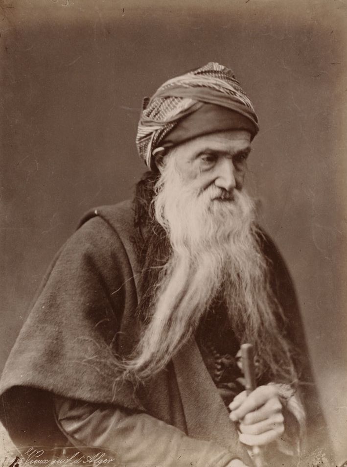 BPLDC no.: 08_04_000366 Page Title: Jew. Collection: Tupper Scrapbooks Collection Album: Volume 1: Algeria. Call no.: 4098B.104 v1 (p. 42) Creator: Tupper, William Vaughn Genre: Scrapbooks; Albumen prints Extent: 1 photographic print mounted on page : albumen ; page 33 x 39 cm. Description: Scrapbook page contains one photograph showing a bearded Jewish man, with annotated information about the history of Jewish settlement in the area. Transcription: Jews are said to have made colonies in Tunis and Algeria on the destruction of Jerusalem. Notes: Page description supplied by cataloger, derived from captions and/or annotated information.; Caption on image: No. 4[?]5 Vieux juif d'Alger BPL Department: Print Department Rights: No known restrictions. Flickr data on 2011-08-15: Camera: Sinar AG Sinarback 54 FW, Sinar m License: CC BY 2.0 User: Boston Public Library BPL